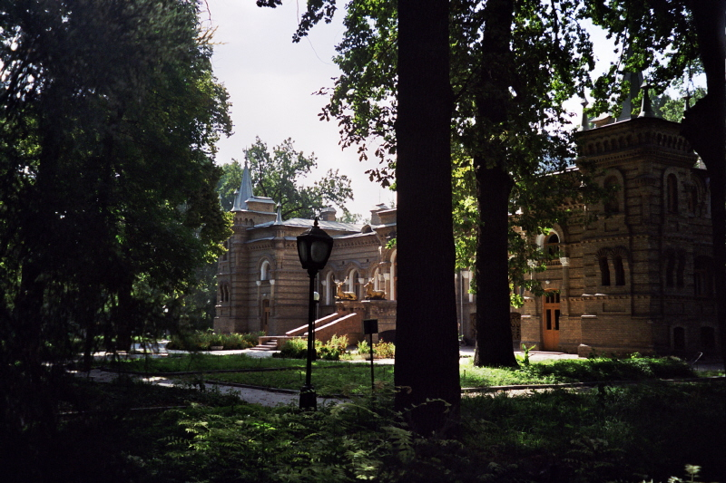 it was pretty on the outside, but not open to the public